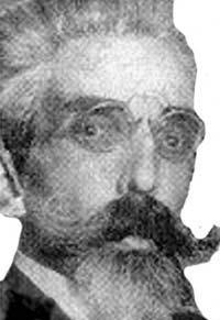 Jose Juan Verocay